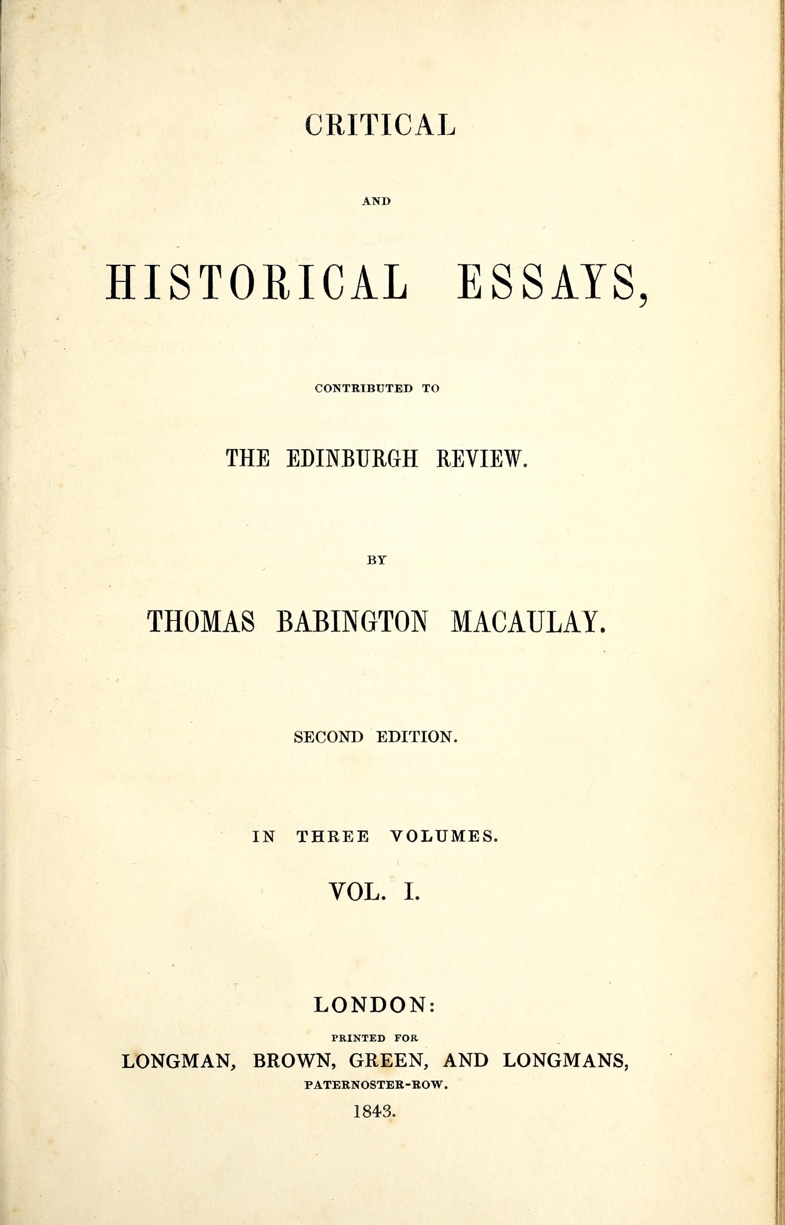 Critical and Historical Essays (Macaulay), 2nd edition title page